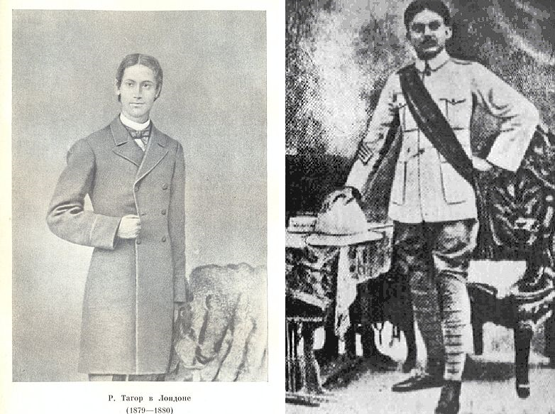 tagore and nazrul of bengal